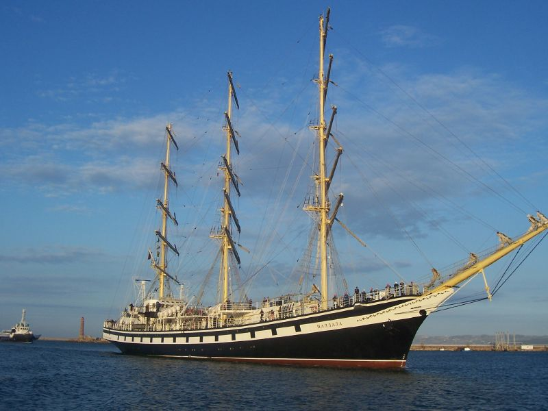 Russian Tall Ship: Pallada, entering in Bizerte, Tunisia